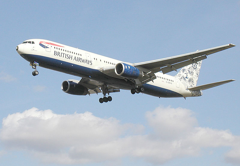 A Boeing 767-300 of British Airways (G-BZHB)) on the approach to London (Heathrow) Airport.